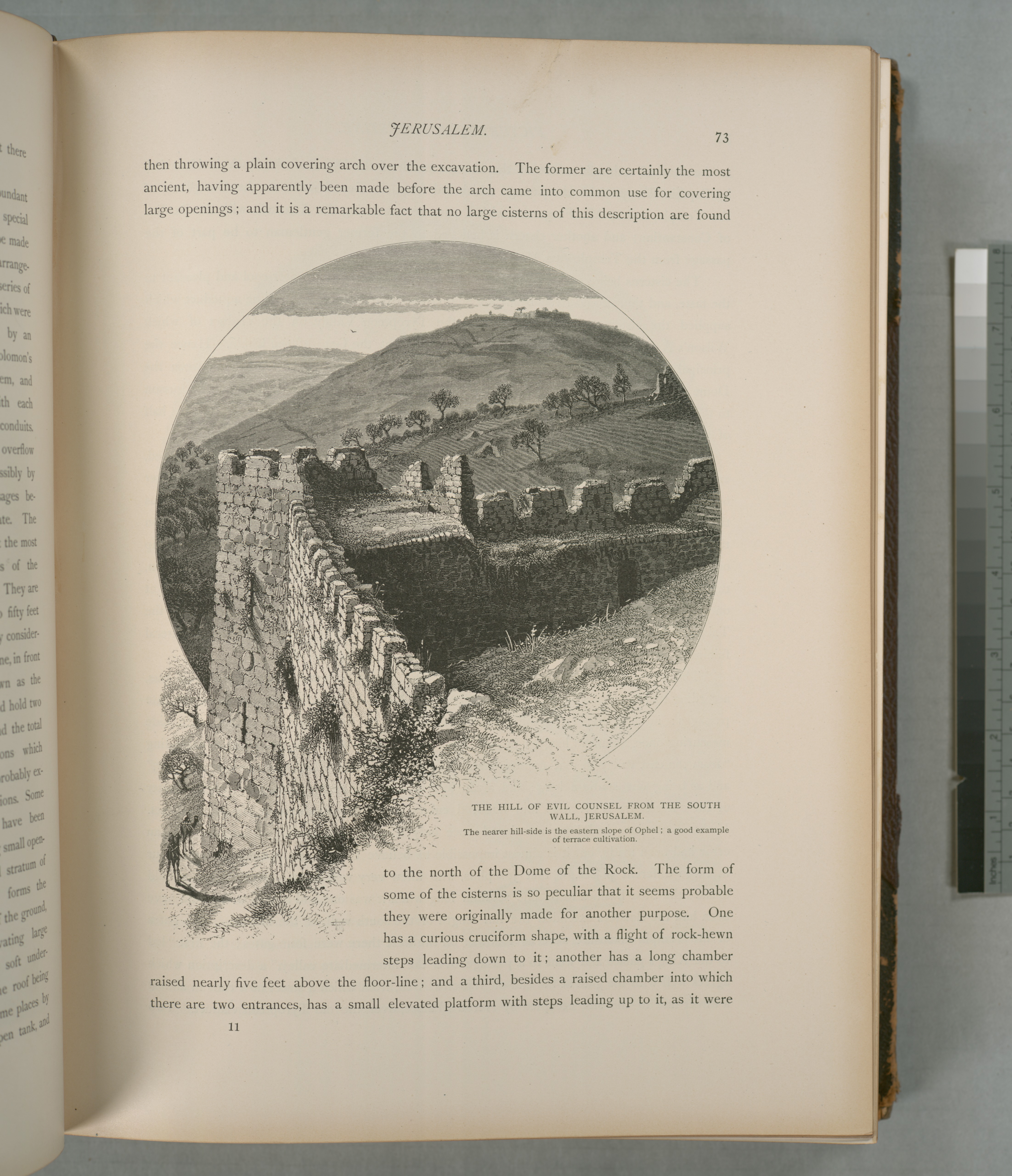 Colonel Wilson, ed.